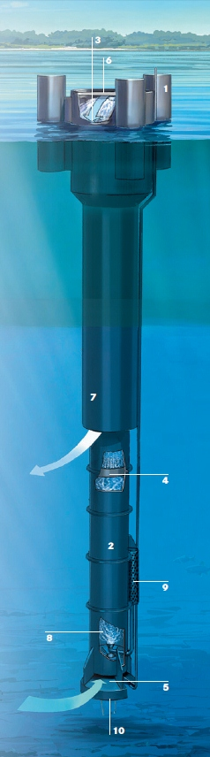 TIBEAN: hypolimnetic aeration, deep water aerator: technical components